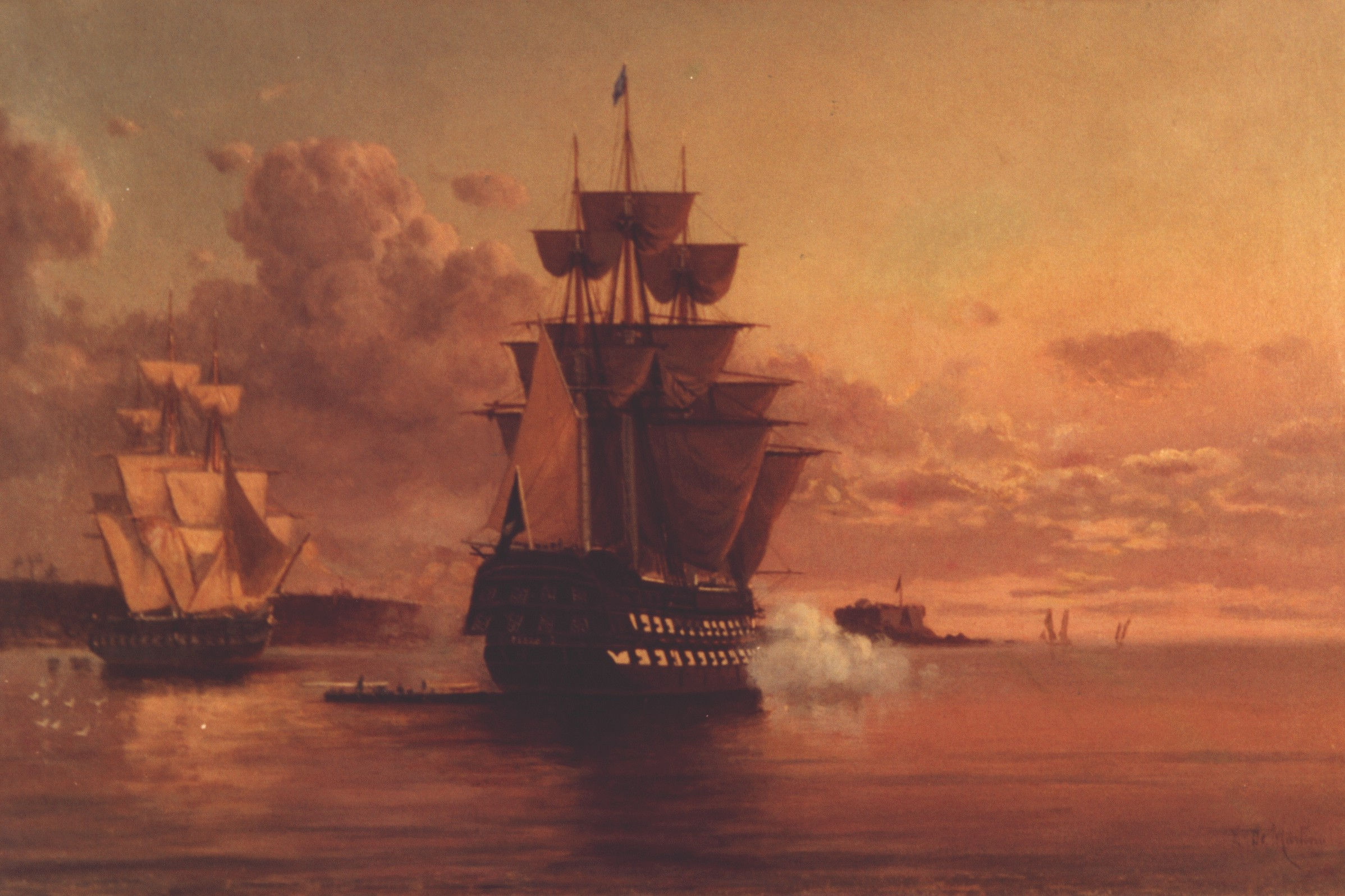 NAVIOS DE GUERRA GUERRA DA INDEPENDÊNCIA ARTES VISUAIS/CINEMATOGRÁFICA PINTURA